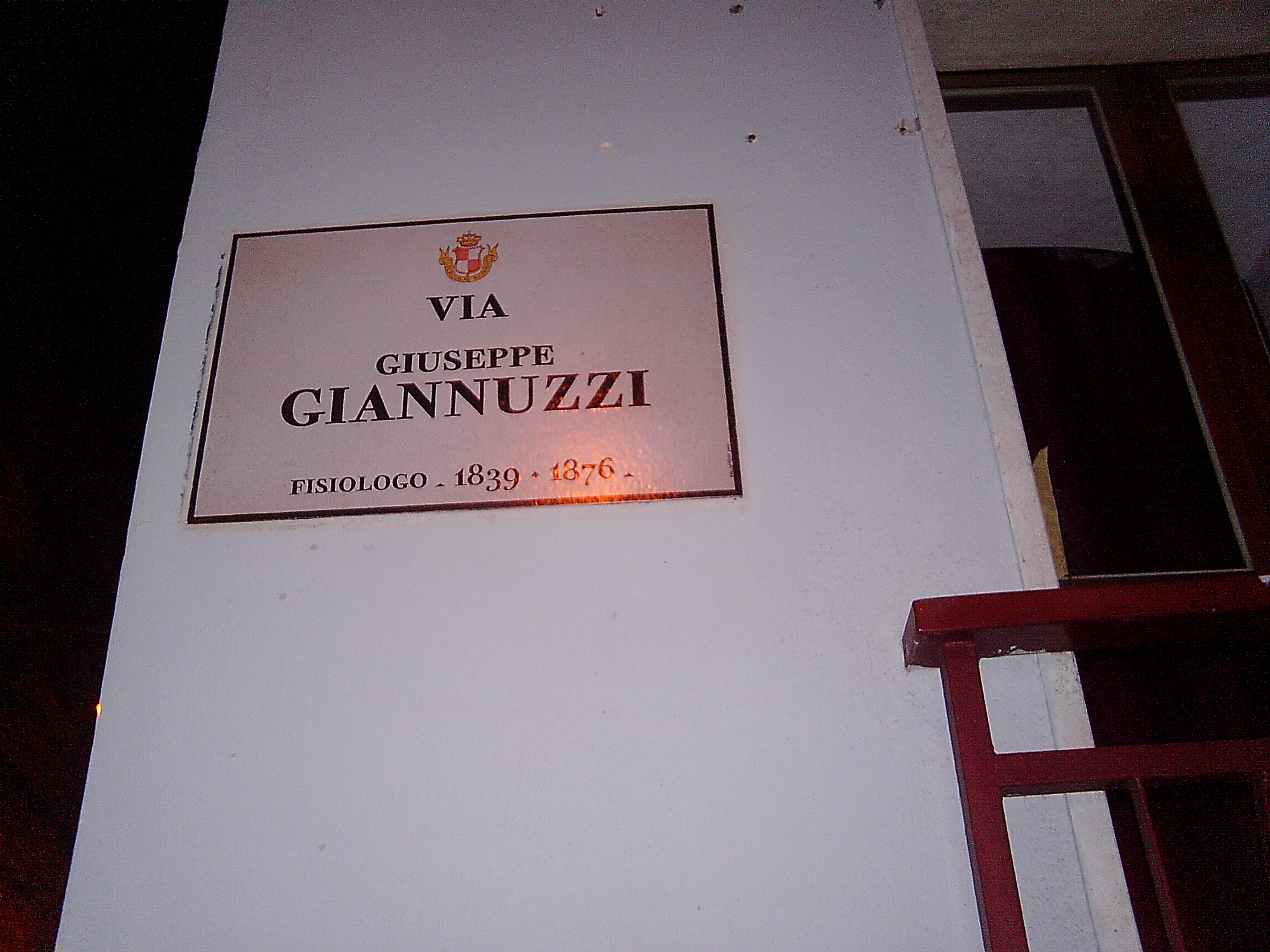 Via Giuseppe Giannuzzi